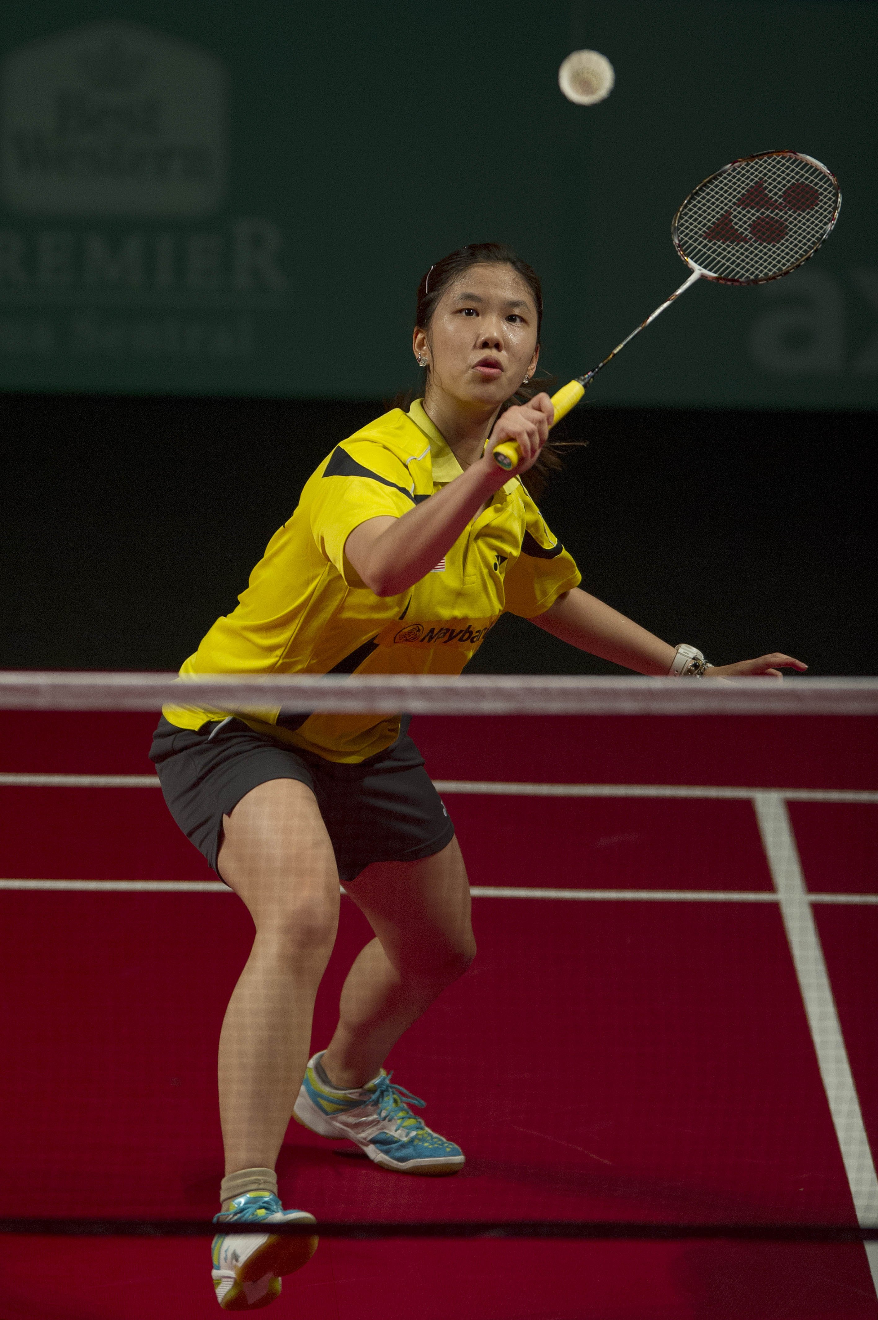 Sonia Cheah at 2013 Axiata Cup